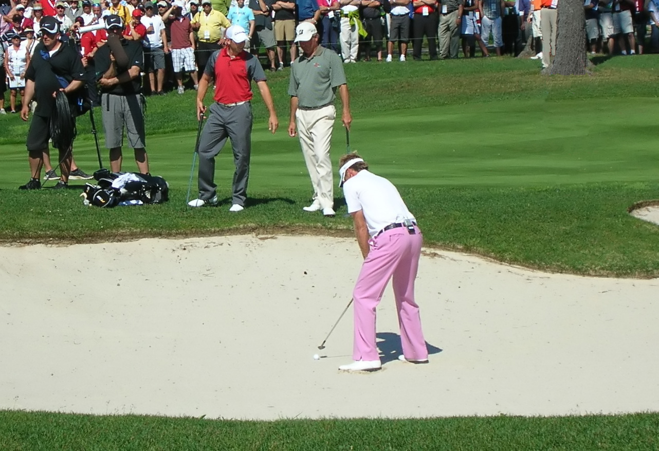 Ian Poulter at Telus World Skins Game, La Tempête Golf Club, Lévis, province of Quebec, Canada